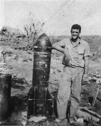 type 98 320 mm mortar projectile (iwo jima 1945)